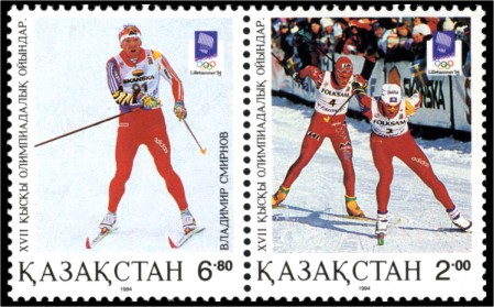 Stamp of Kazakhstan